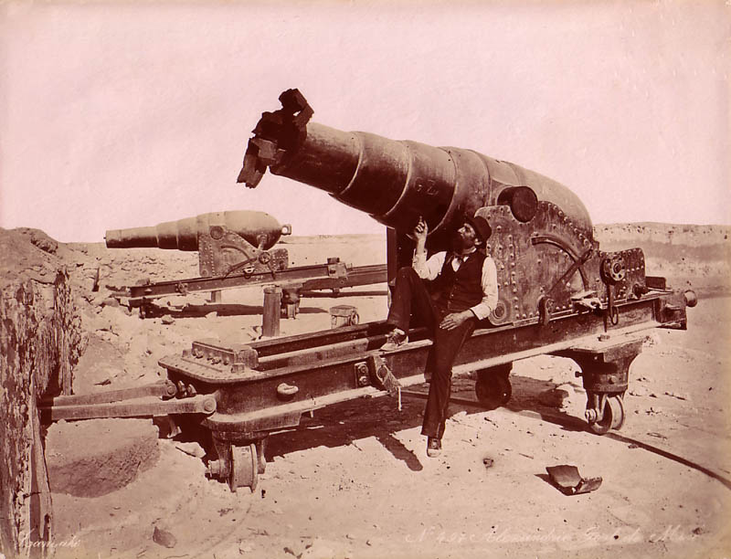 A self-portrait of one of the Zangaki brothers. Albumen print 8.4 in x 11 in (216 mm x 280 mm) . Shows cannon at Alexandria., ca1870s. Note: It is generally thought that the man sitting on the cannon and pointing to the initials G.Z. carved on its barrel is one of the Zangaki brothers, mostly likely George.